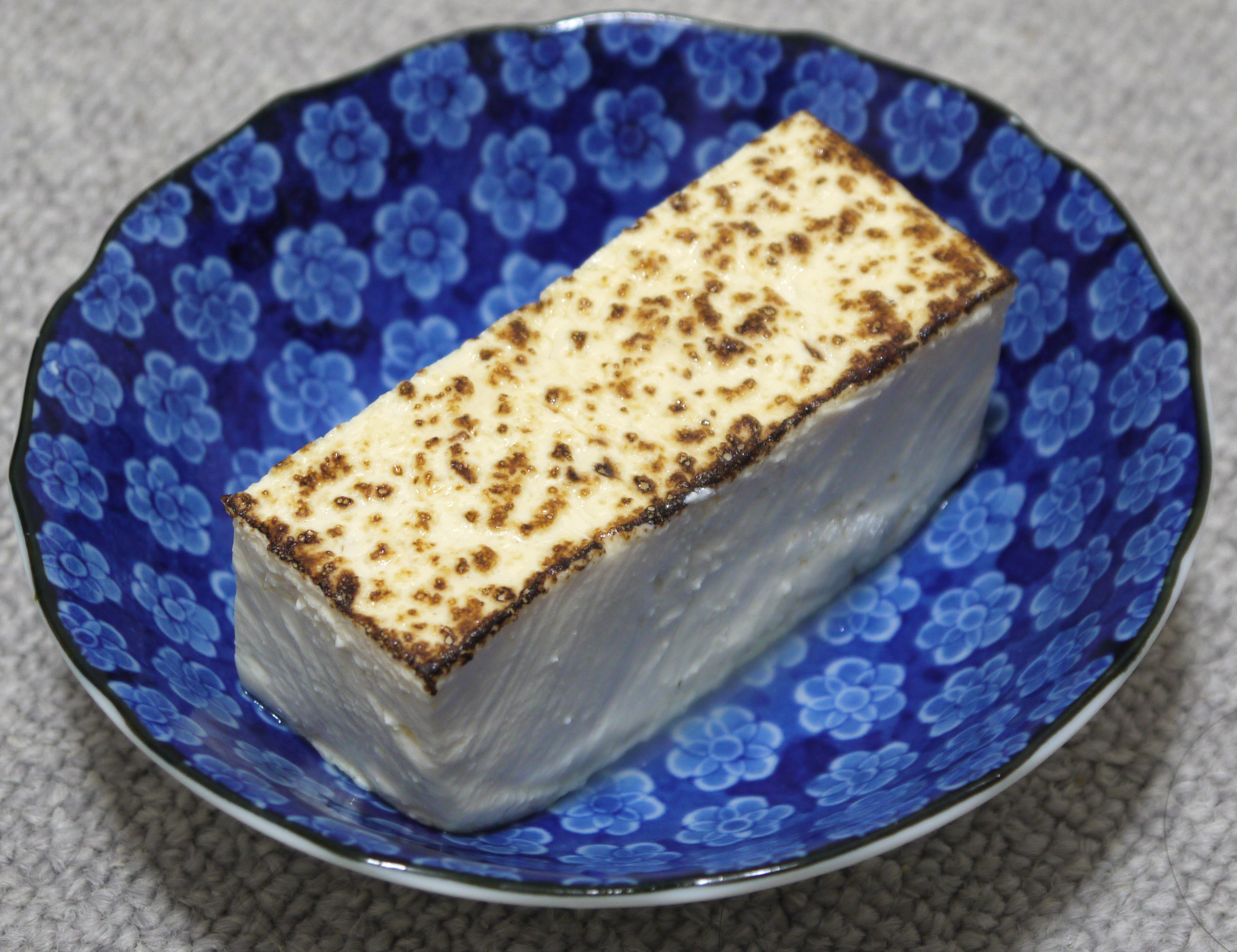 Japanese Yaki Tofu